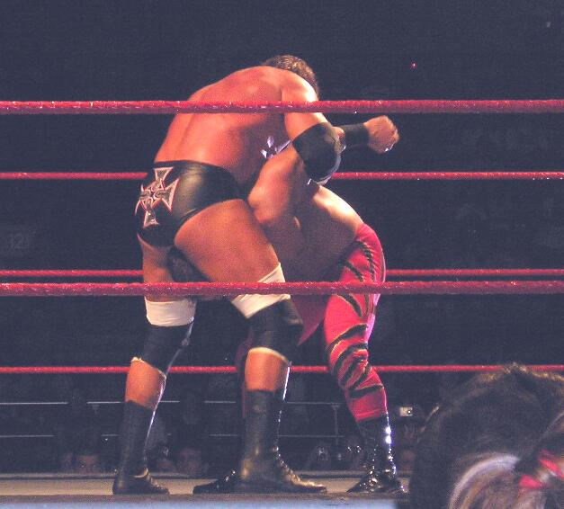 The rightful owner, LC, has given me permission to use and distribute this image. If you have any questions or concerns you can contact the author of this image at